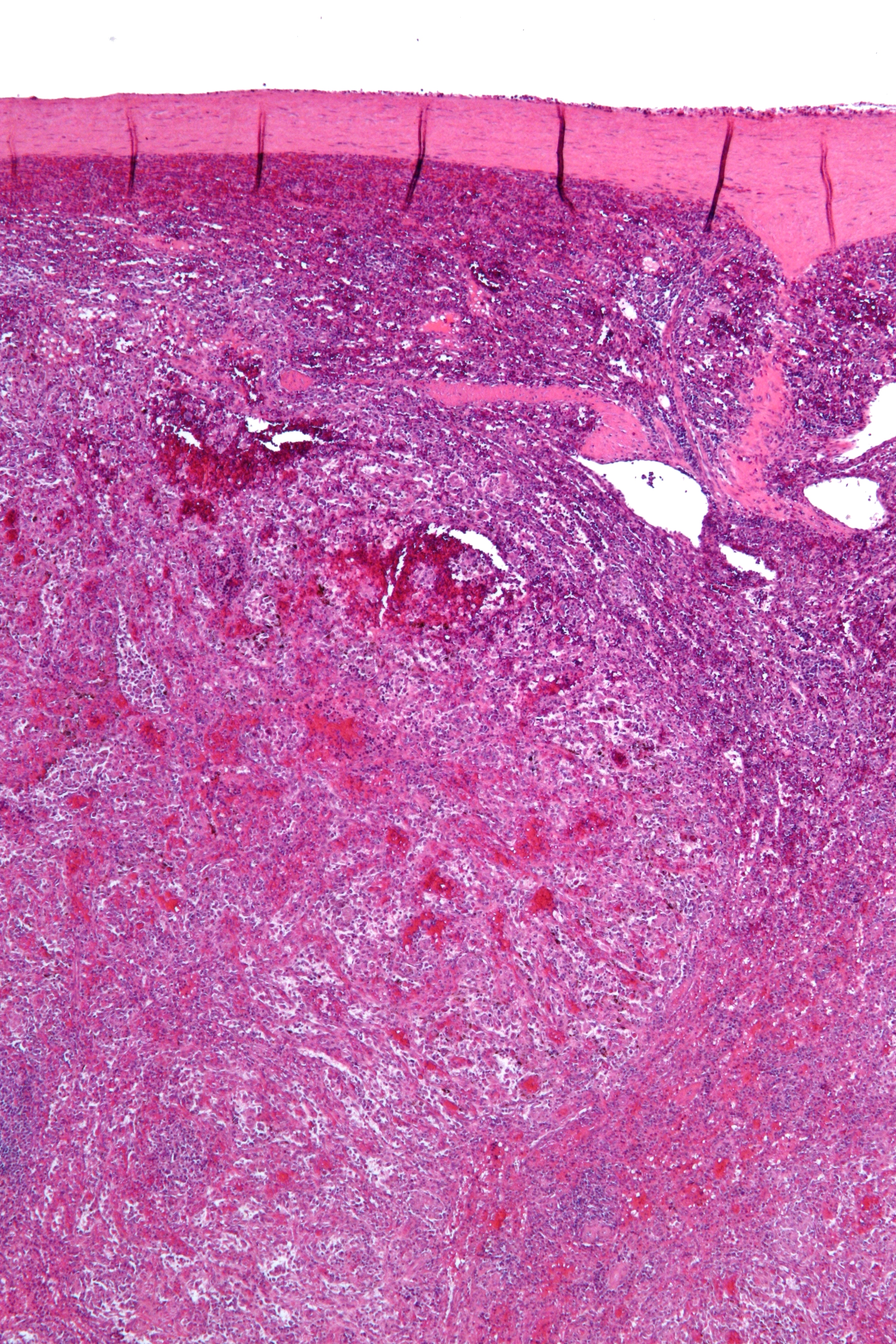 Low magnification micrograph of a littoral cell angioma of the spleen. H&E stain. Related images Very low mag. Low mag. Intermed. mag. High mag. Very high mag.